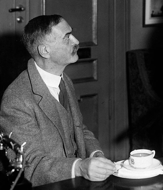 Karl Landsteiner with the Swedish Queen of Light Lucia in Stockholm